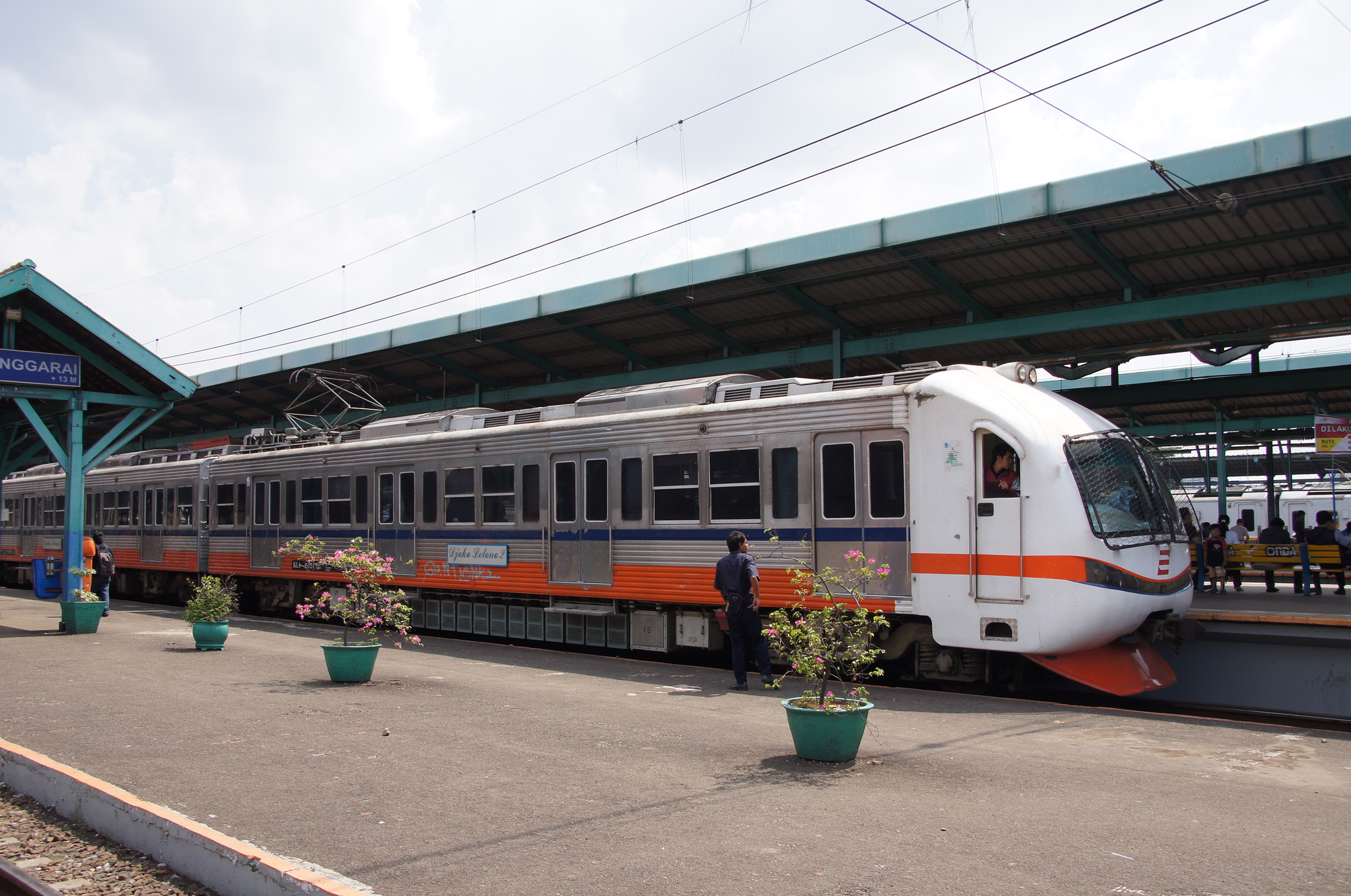 A 4-car EMU set of former Japanese Toei 6000 series cars operated by KRL Jabotabek in Indonesia at Manggarai Station, led by car 6151 with a rebuilt front end